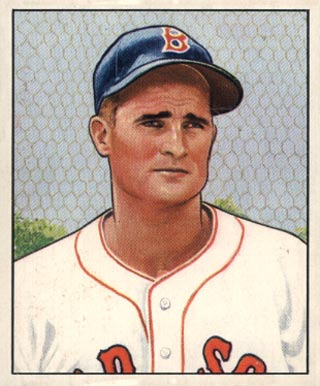 1950 Bowman baseball card of Bobby Doerr